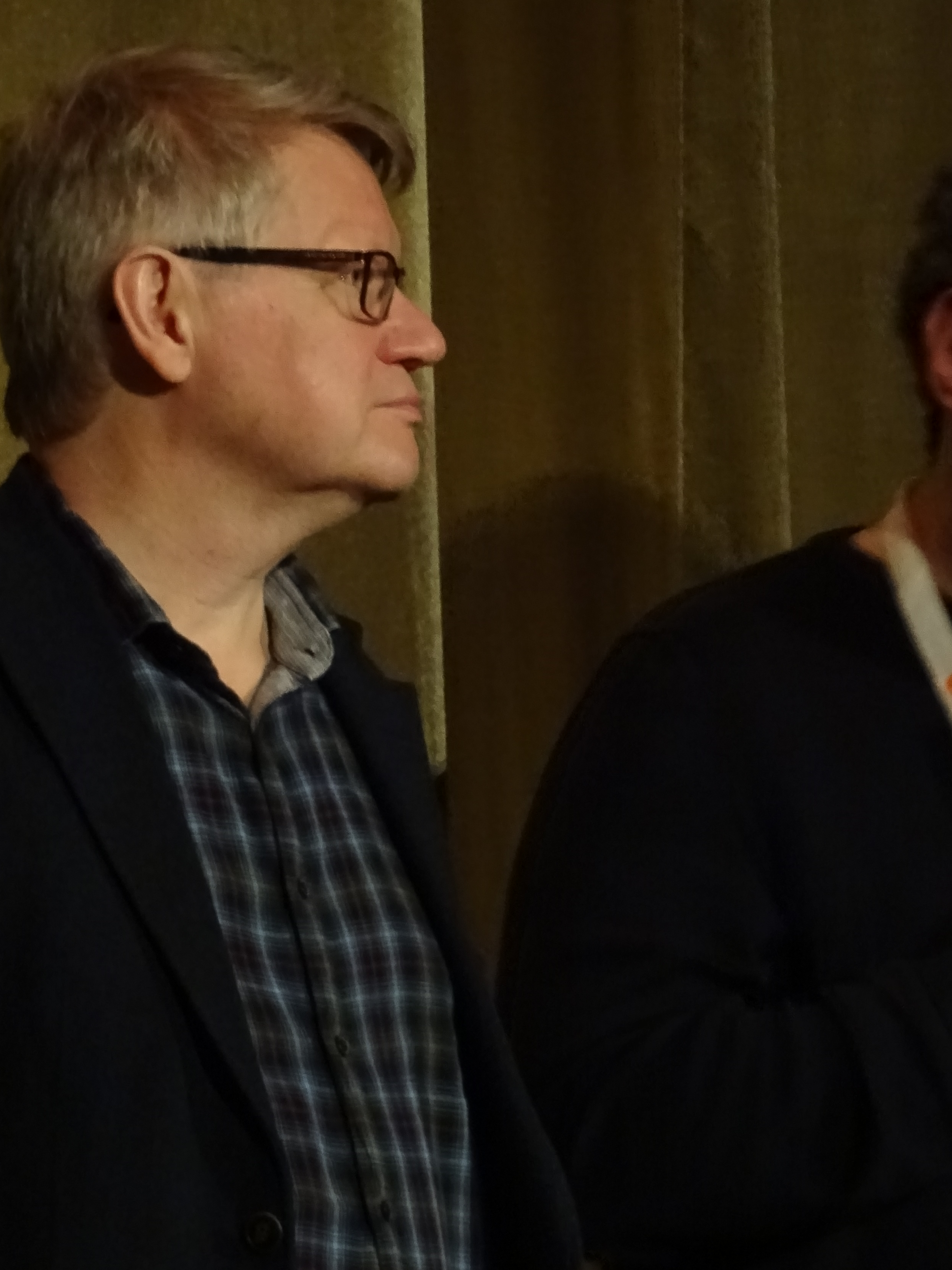 German author, film historian, journalist and curator Claus Löser at Berlinale 2020